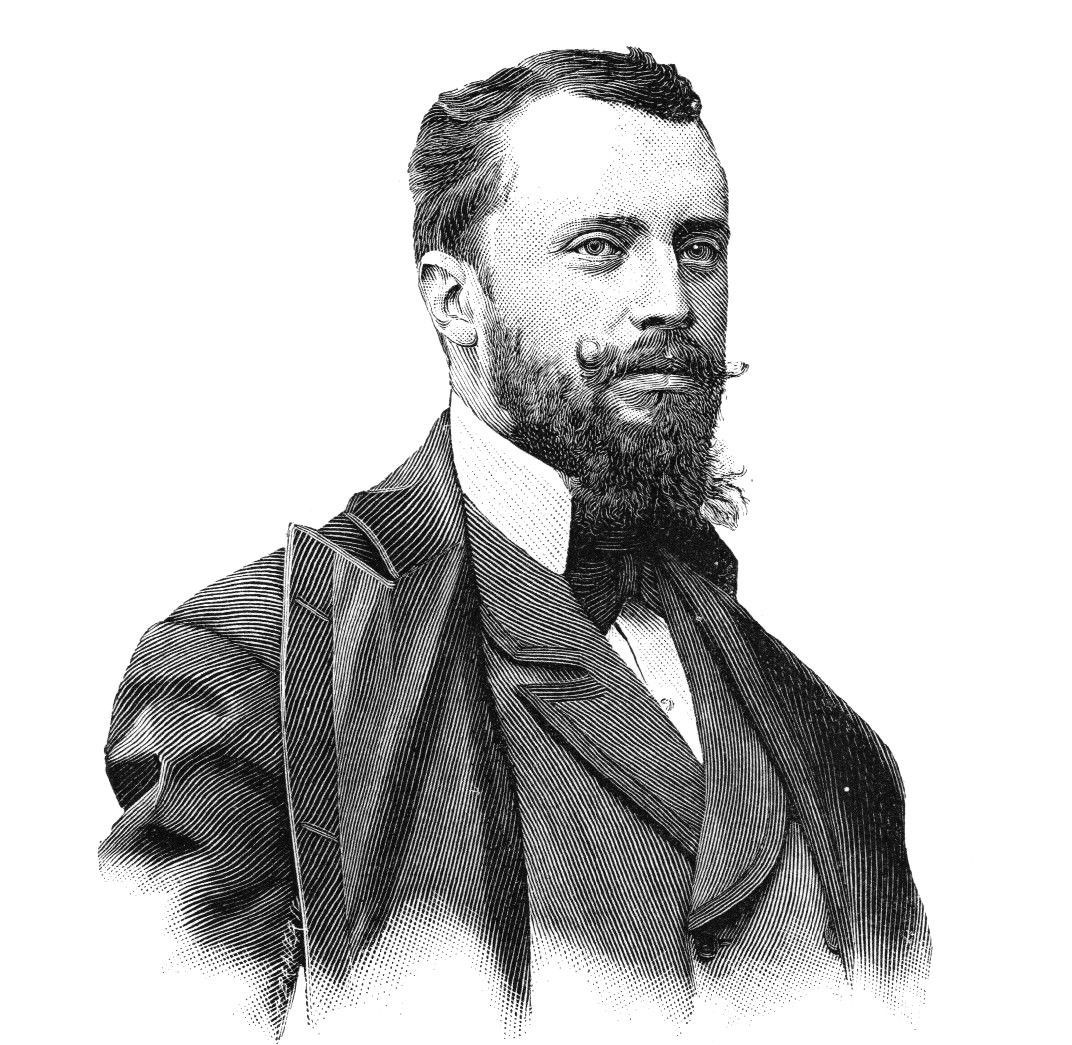 French writer and illustrator Ferdinand Bac (1859-1952)